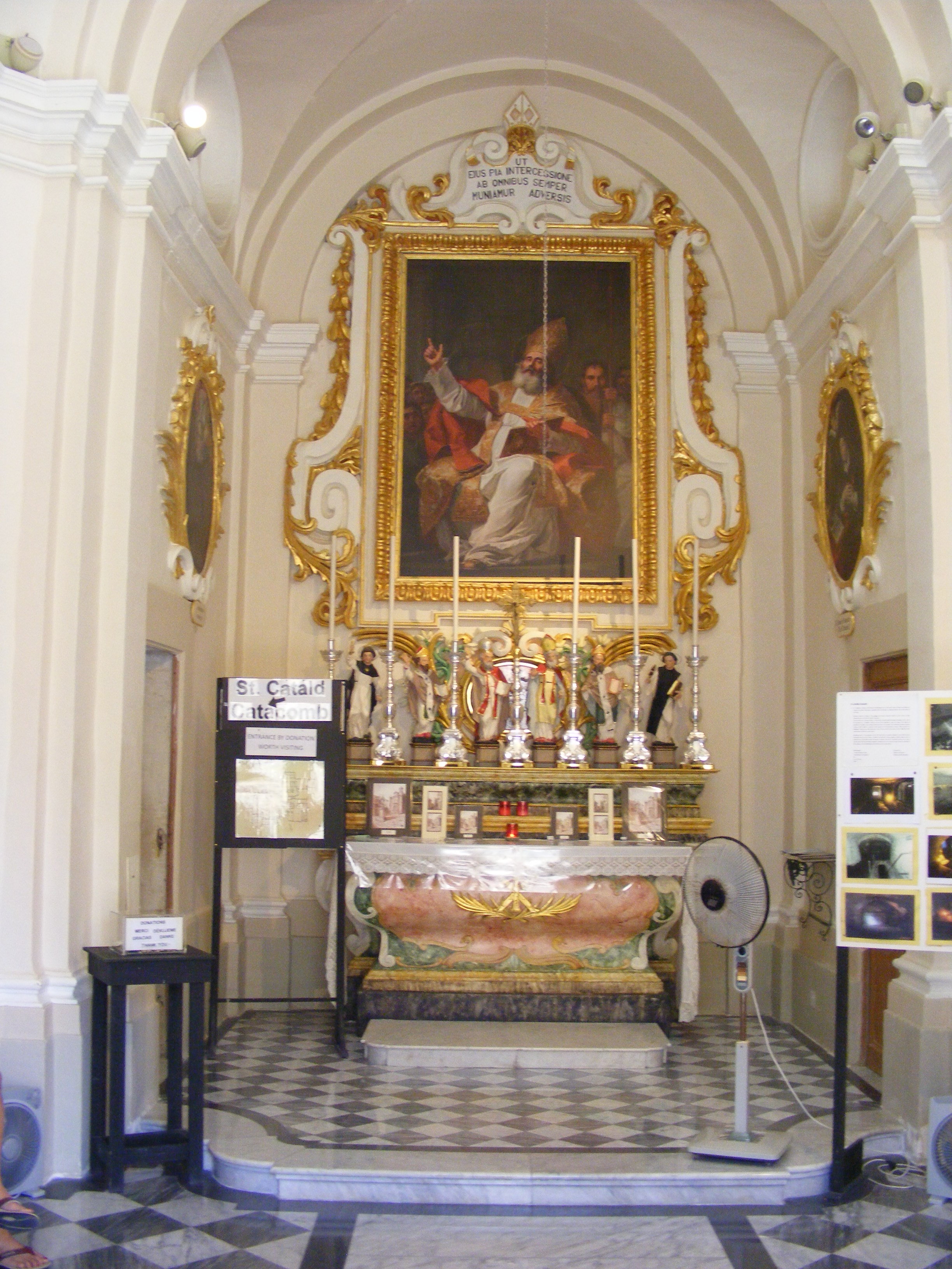 St Catald Church, Rabat, Malta (main altar)